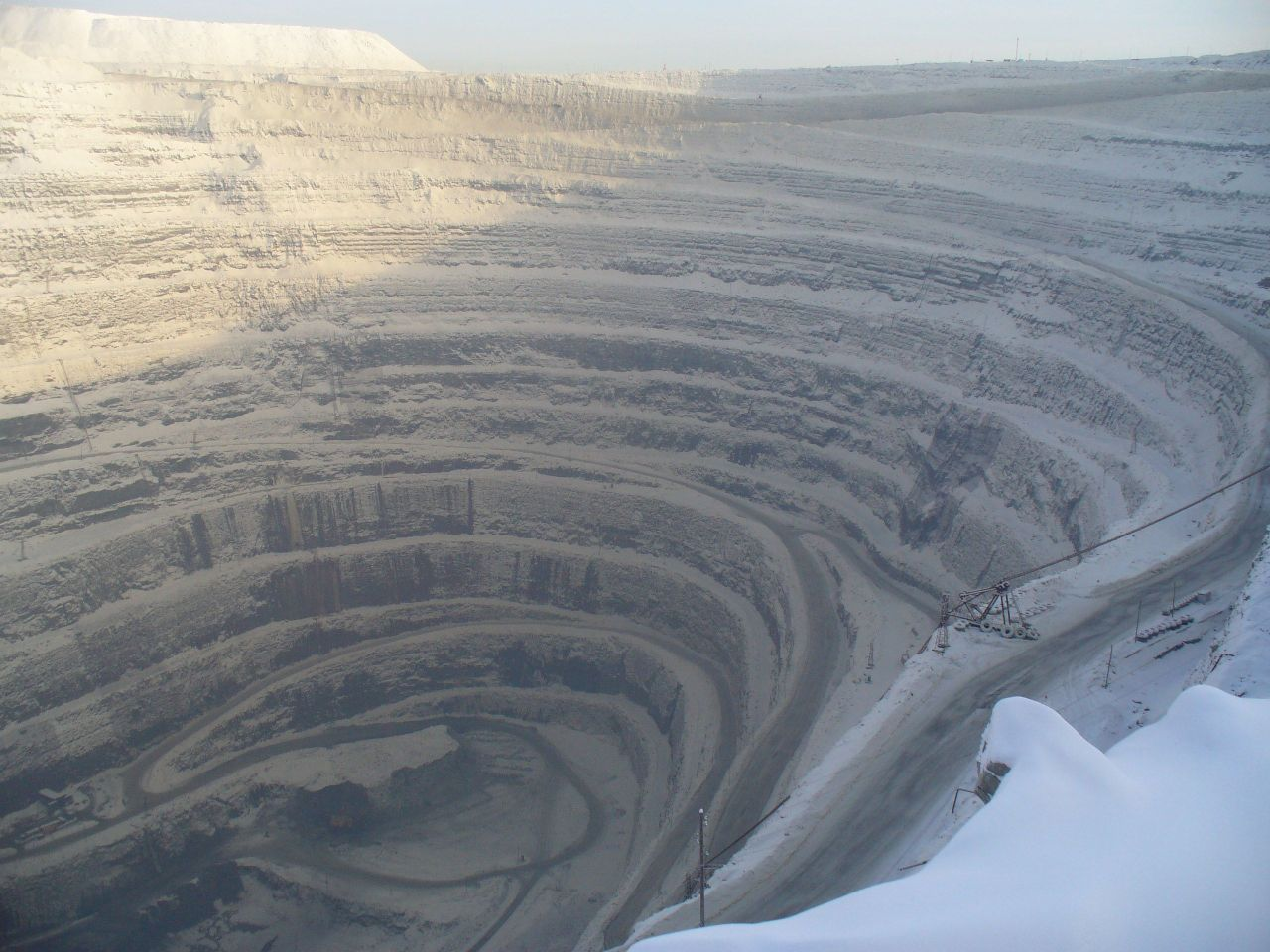 Udachnanyay pipe, southern side, view at deep